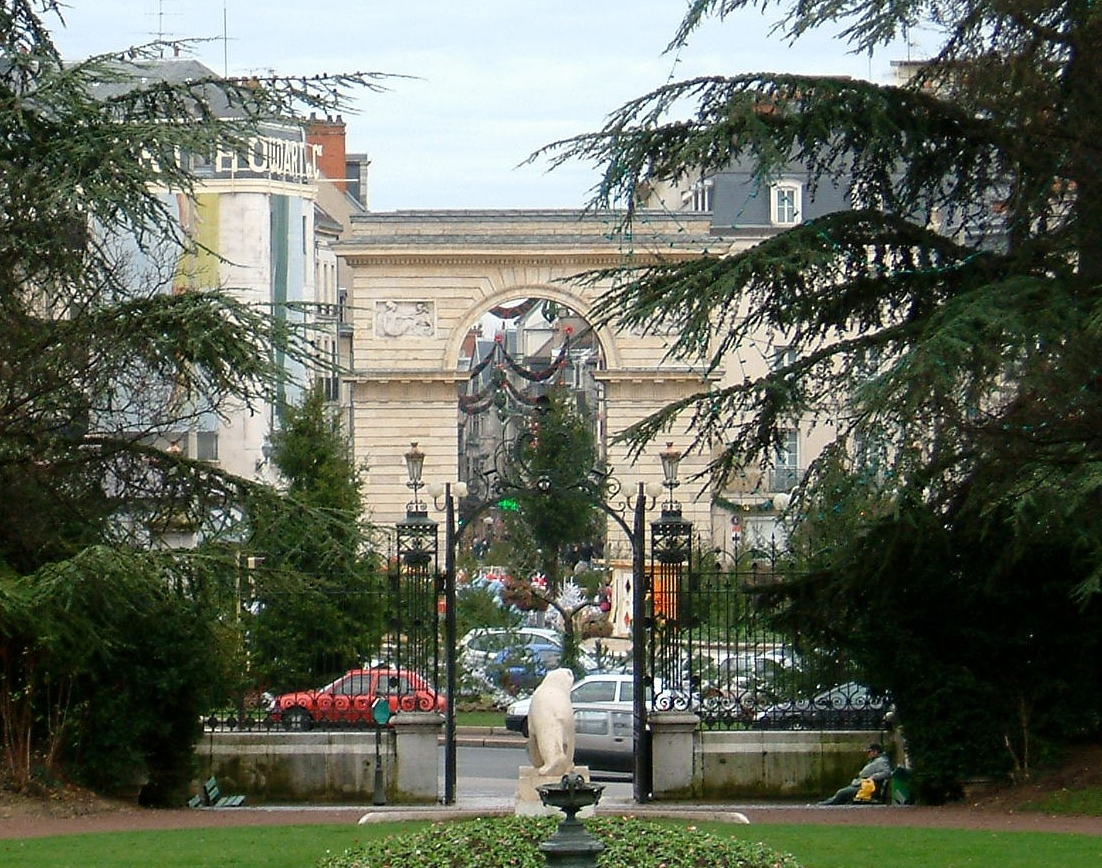 Dijon, Burgundy, France